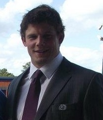 Scottish rugby union international Ross Ford in 2011